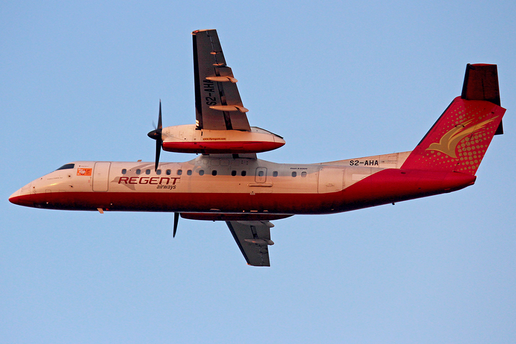 Regent Airways DH8 deprting from VGHS on a beautiful afternoon.